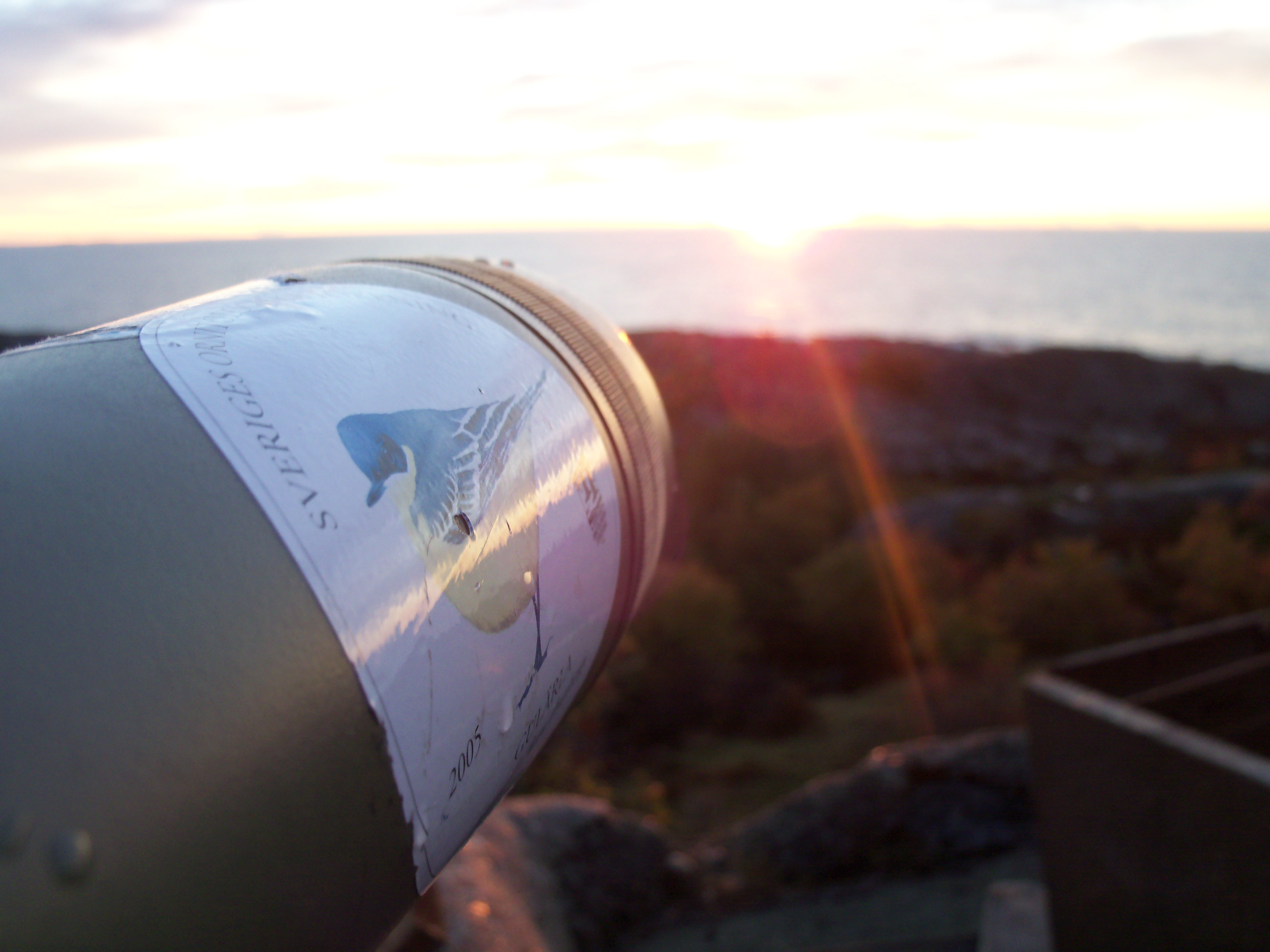 Birdwatching with spotting scope at the southern cape of the island Öja (Landsort), at lighthouse of Landsort, south of Nynäshamn in Södermanland in Stockholm County in Sweden. The photography was shot about 06:00 in the morning.